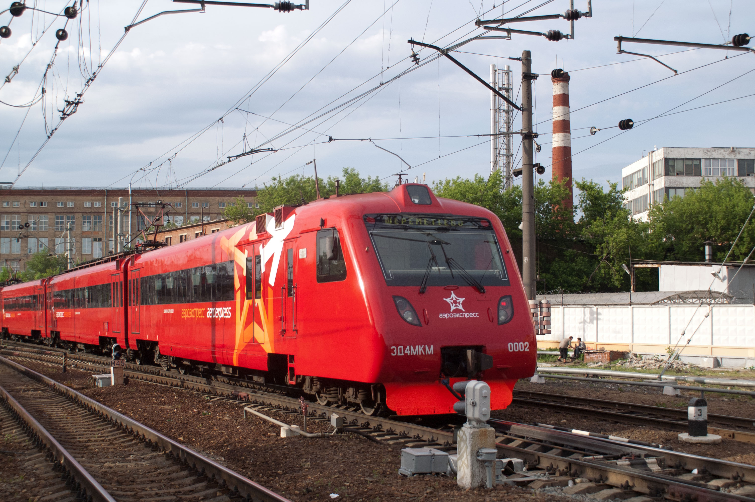 Aeroexpress train in Moscow